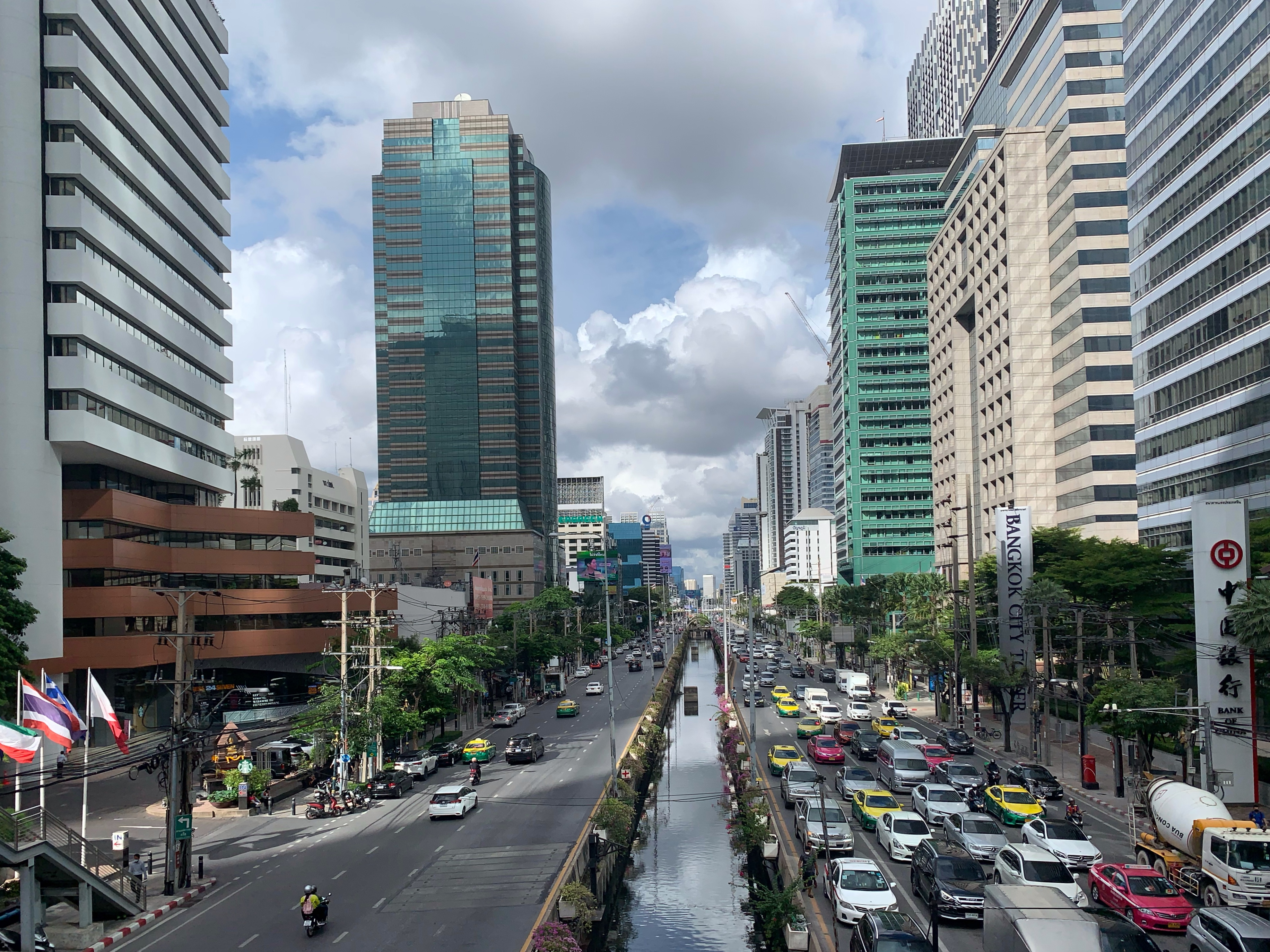 Khlong Sathon (also spelled Sathorn) Canal in Bangkok